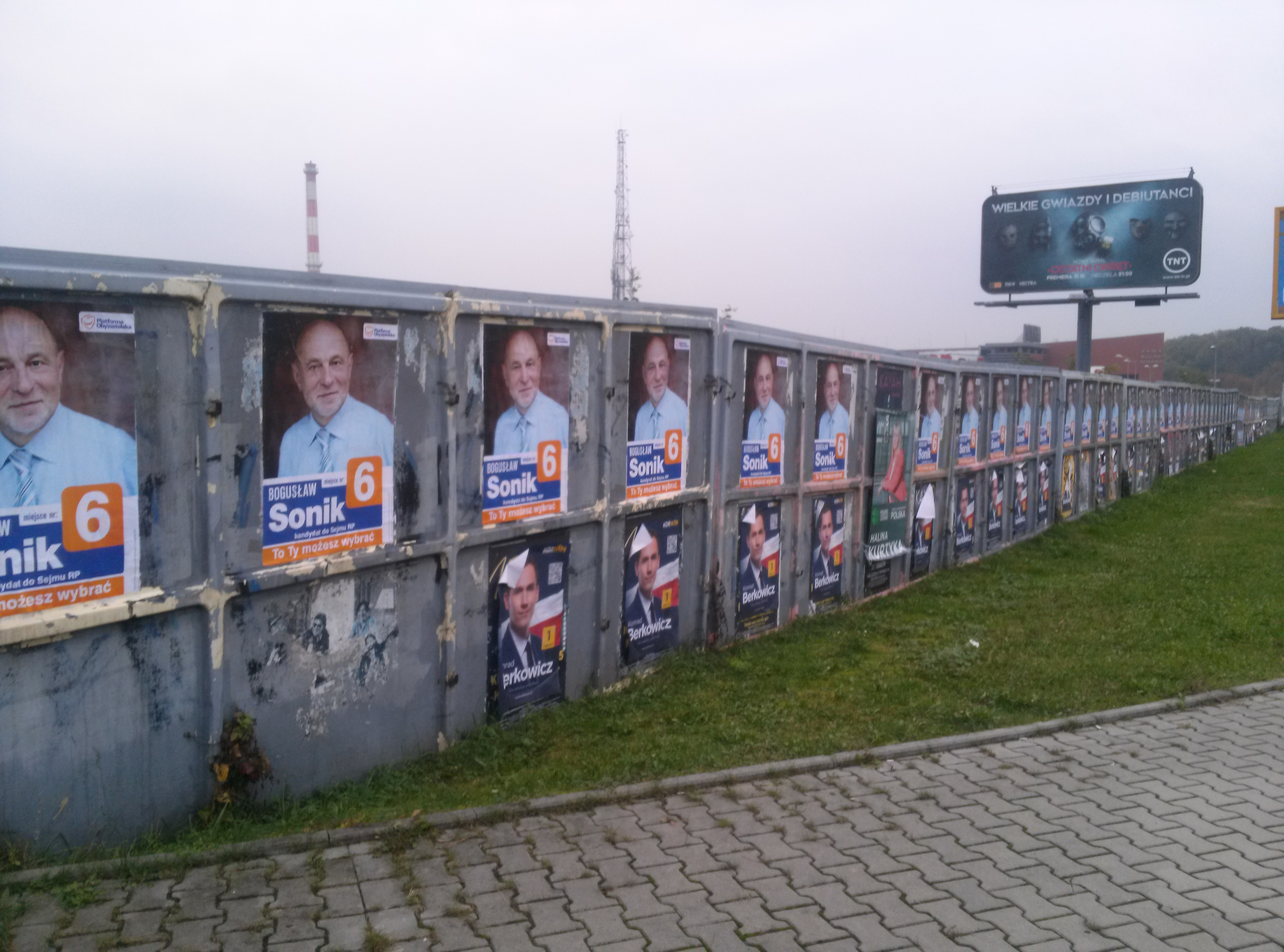 Polish parliamentary election 2015 - Kraków